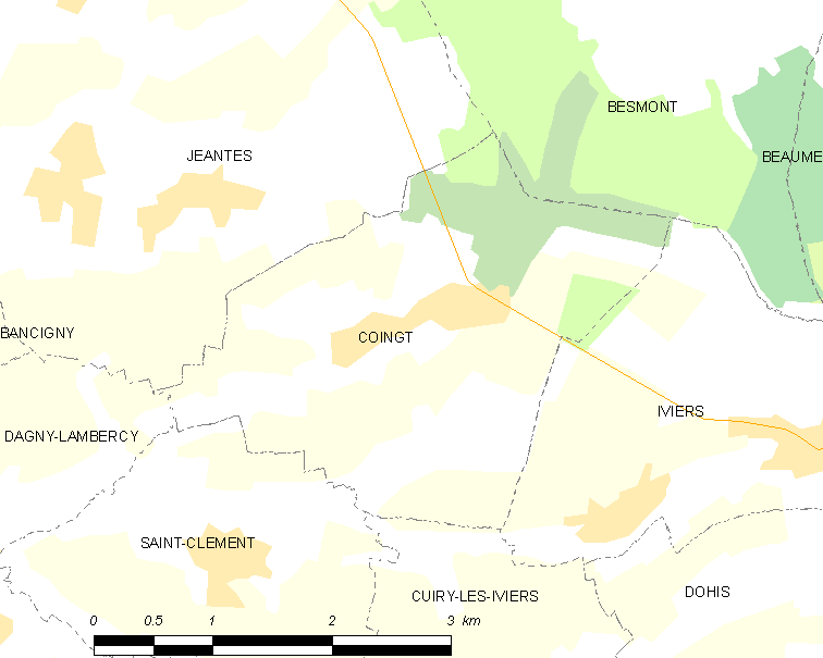 Map of French commune: Coingt Map commune FR insee code 02204.png